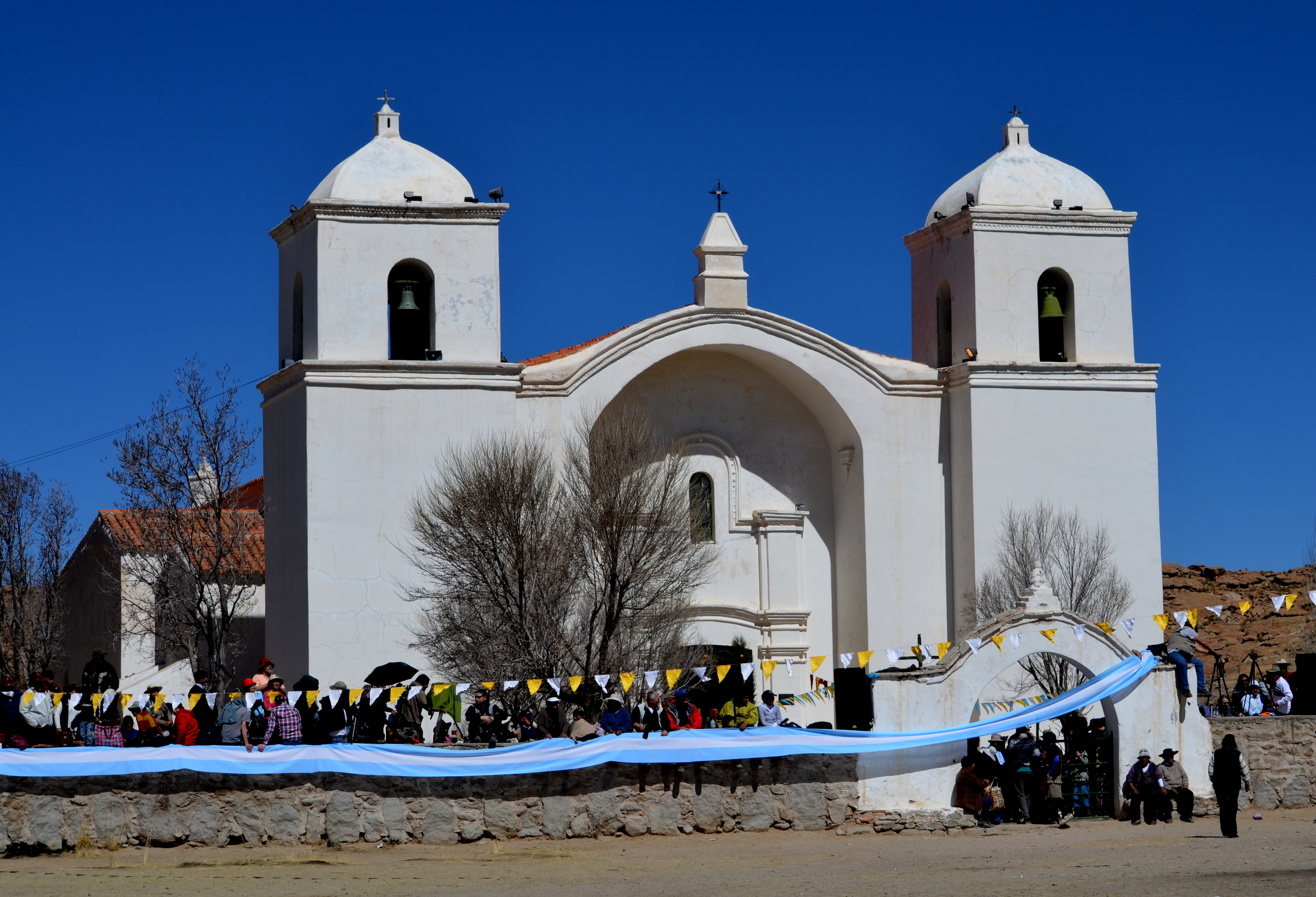 La edificación data de 1690 los cimientos y de 1722 la edificación de la mayoría del edificio gracias a un impulso que le dio el Deán Gregorio Funes. En su interior lucen pinturas de la escuela cuzqueña, Los Ángeles Arcabuceros. Por su importancia histórica es llamada “La catedral de la Puna”, cada 15 de agosto se celebran fiestas en honor a la Asunción de la Virgen María, patrona del lugar; entre ellas, el “Toreo de la Vincha"